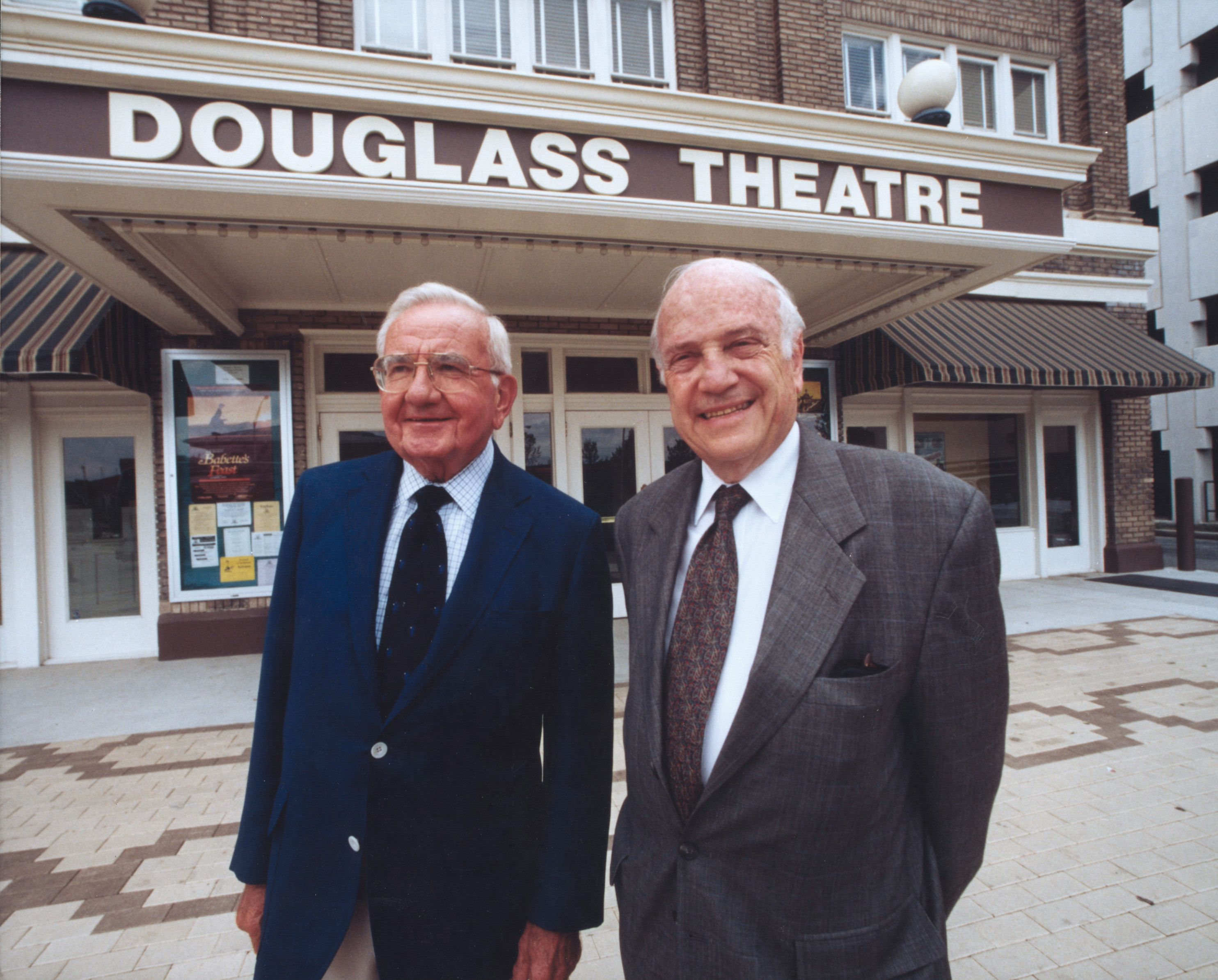 Creed C. Black and W. Gerald Austen at Douglass Theatre in Macon, Georgia, for board of trustees meeting in 1998. Creed C. Black is former President and CEO, trustee of Knight Foundation. W. Gerald Austen is former Chairman of Board of Trustees, Knight Foundation.